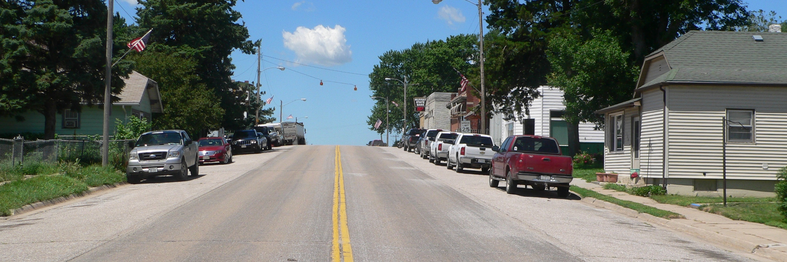 Downtown Murray, Nebraska: Nebraska Highway 1. Camera is facing westward.